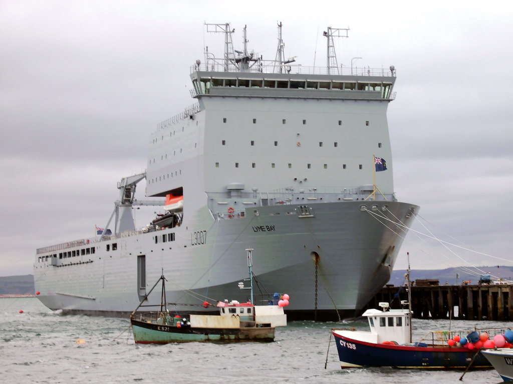 RFA Lyme Bay berthed at Portland Port in August 2007